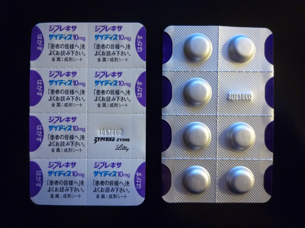 Zyprexa® Zydis® 10mg Tablets selling in Japan Olanzapine OD Tablets